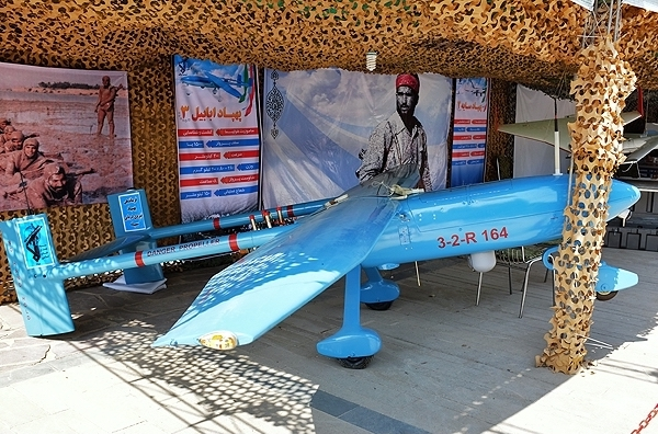 Iranian Ababil-3 UAV at an arms expo in Iran.